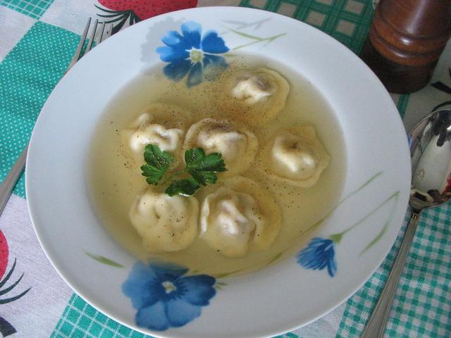 Pelmeni in meat broth